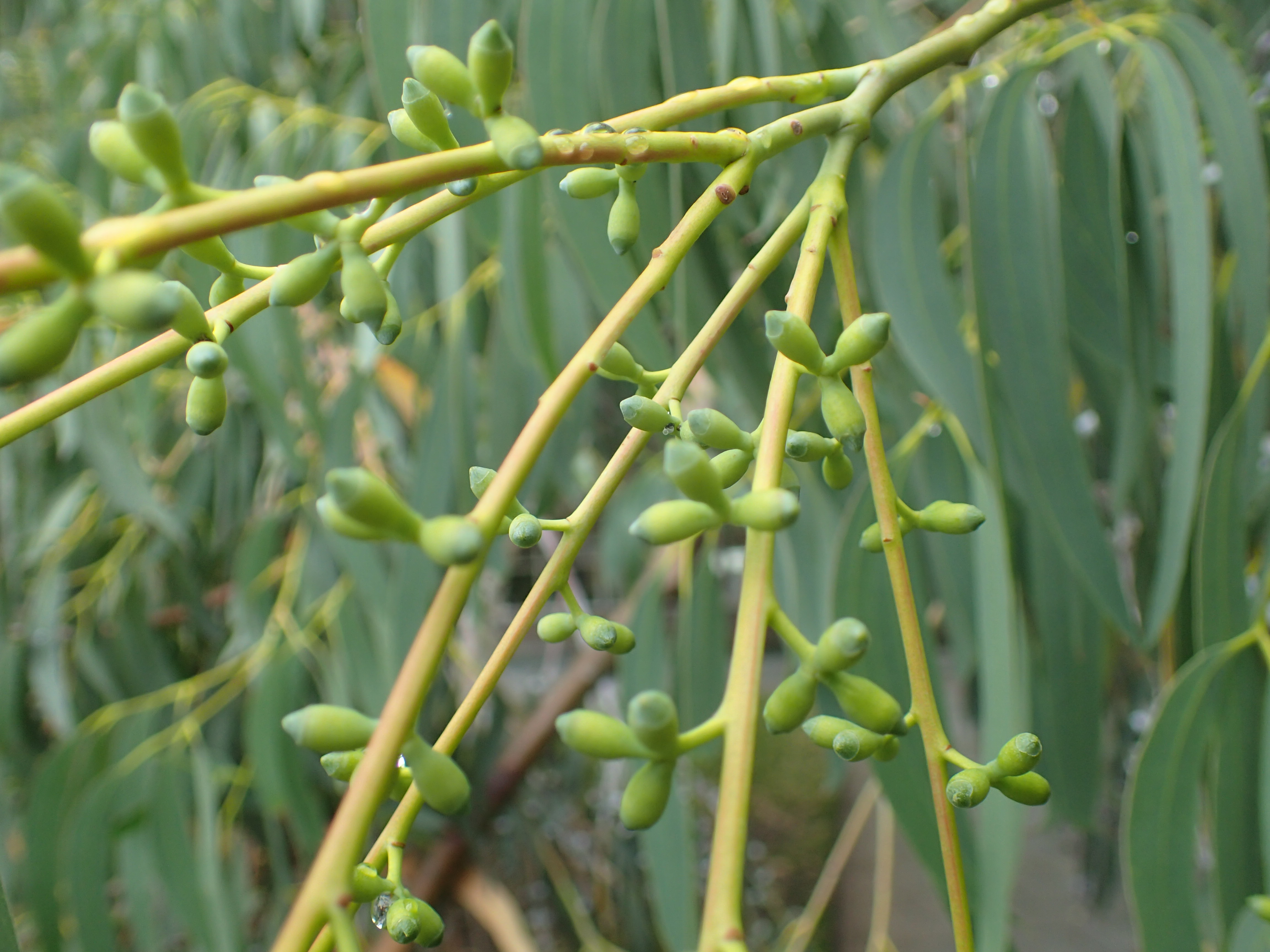 Buds of Eucalyptus perrinana